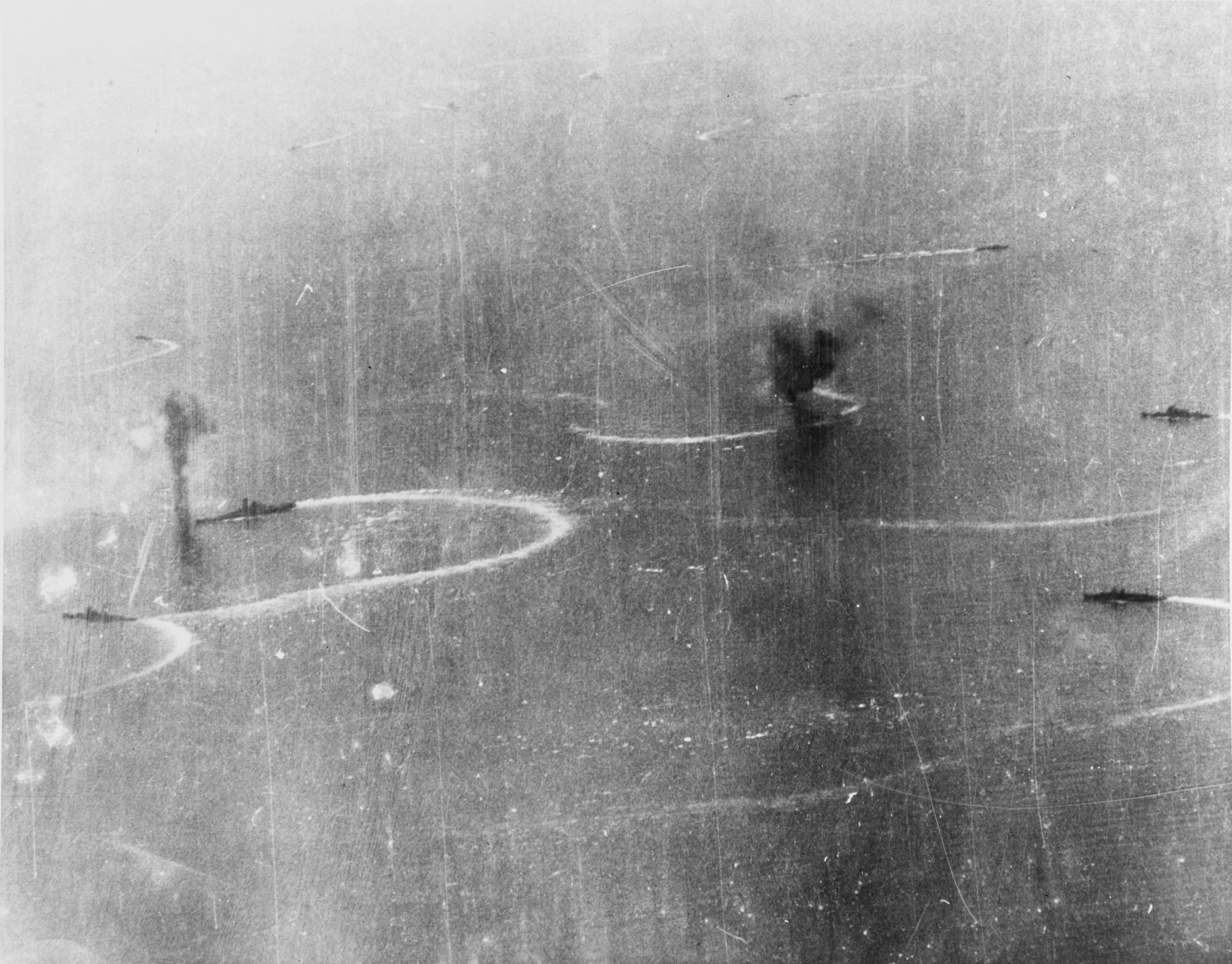 Battle of the Sibuyan Sea, 24 October 1944: A Japanese Yamato-class battleship and other warships maneuver while under attack by U.S. carrier planes in the Sibuyan Sea. The ship in the lower left and the two at the extreme right are heavy cruisers.